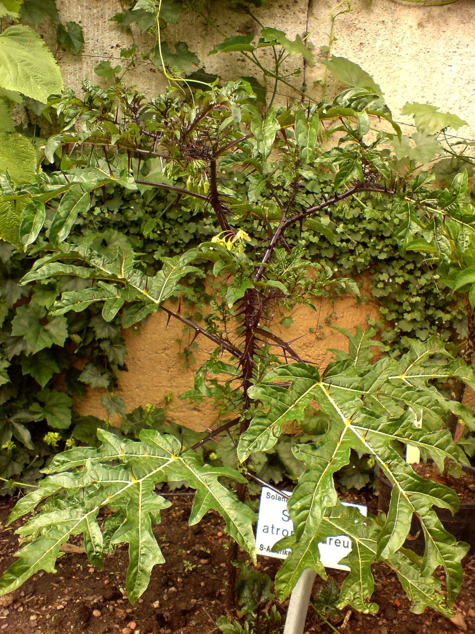 Solanum atropurpureum - Botanical Garden Göttingen